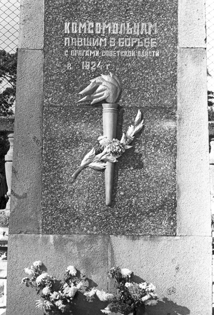 “Monument to Komsomol members who lost their lives in the struggle against the enemies of Soviet power in Sukhumi.”. The monument to Komsomol members who lost their lives in the struggle against the enemies of Soviet power in Sukhumi (1924).